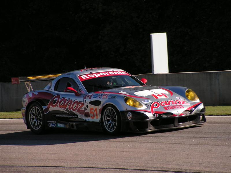 A Panoz Esperante GTLM during practice for the 2006 Petit Le Mans.